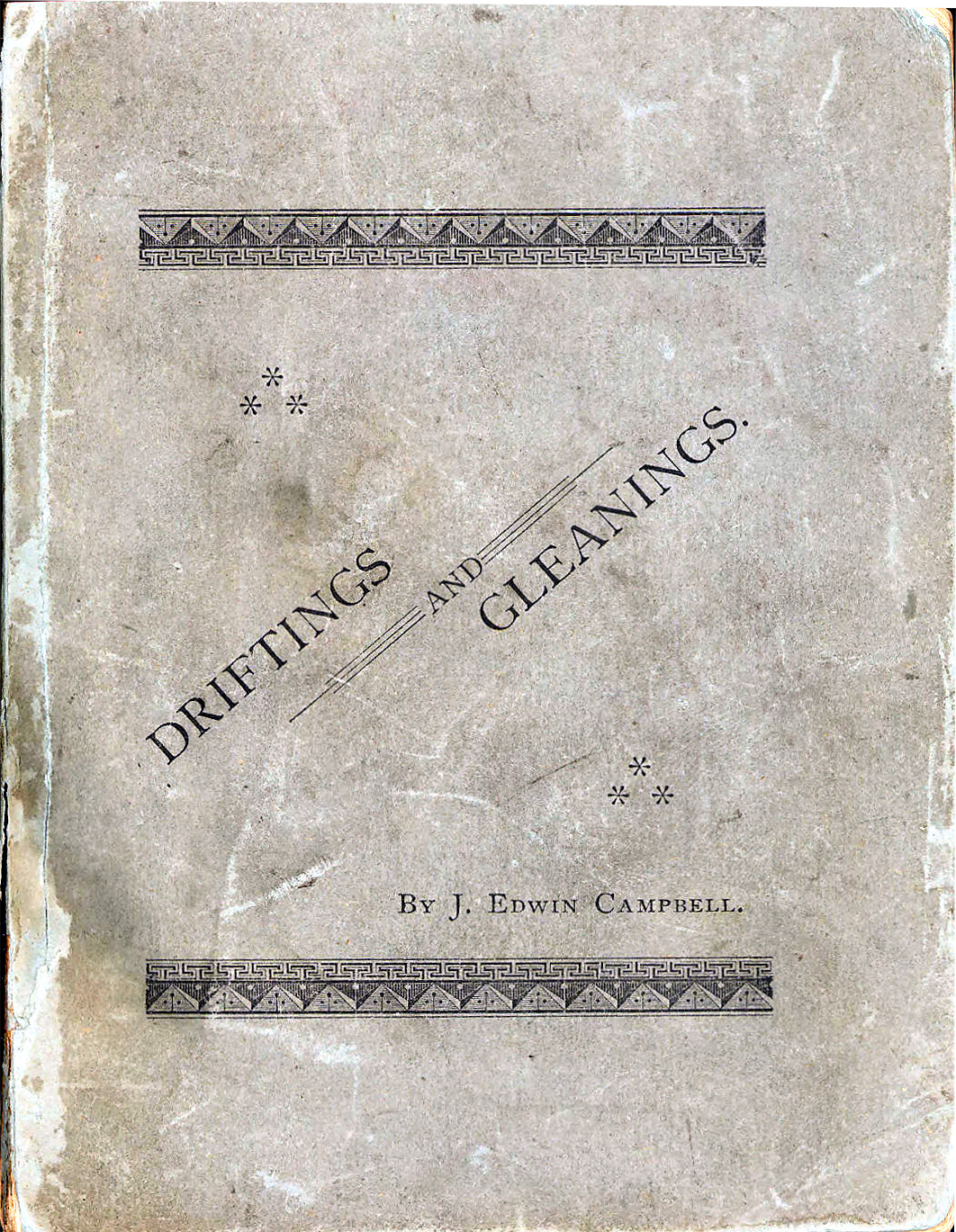 Driftings and Gleanings is a book of poetry by American poet, James Edwin Campbell. (1887) Driftings and Gleanings., Charleston, West Virginia: The State Tribune OCLC: 36136365.